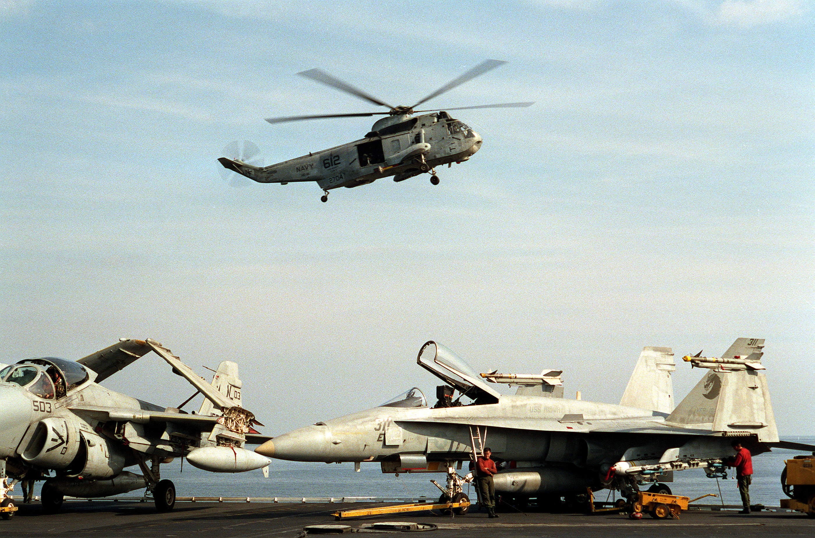 A U.S. Navy Sikorsky SH-3H Sea King of Helicopter Anti-submarine Squadron HS-12 "Wyverns" flies past an Attack Squadron VA-115 Grumman A-6E Intruder aircraft, left, and a Strike Fighter Squadron VFA-192 McDonnell Douglas F/A-18A Hornet aircraft aboard the aircraft carrier USS Midway (CV-41) during Operation Desert Shield. The Hornet aircraft has an AIM-9L Sidewinder missile mounted on each wing tip, a Mark 20 Rockeye II cluster bomb on its inboard wing pylon and six BDU-33 25-pound practice bombs on its outboard wing pylon.